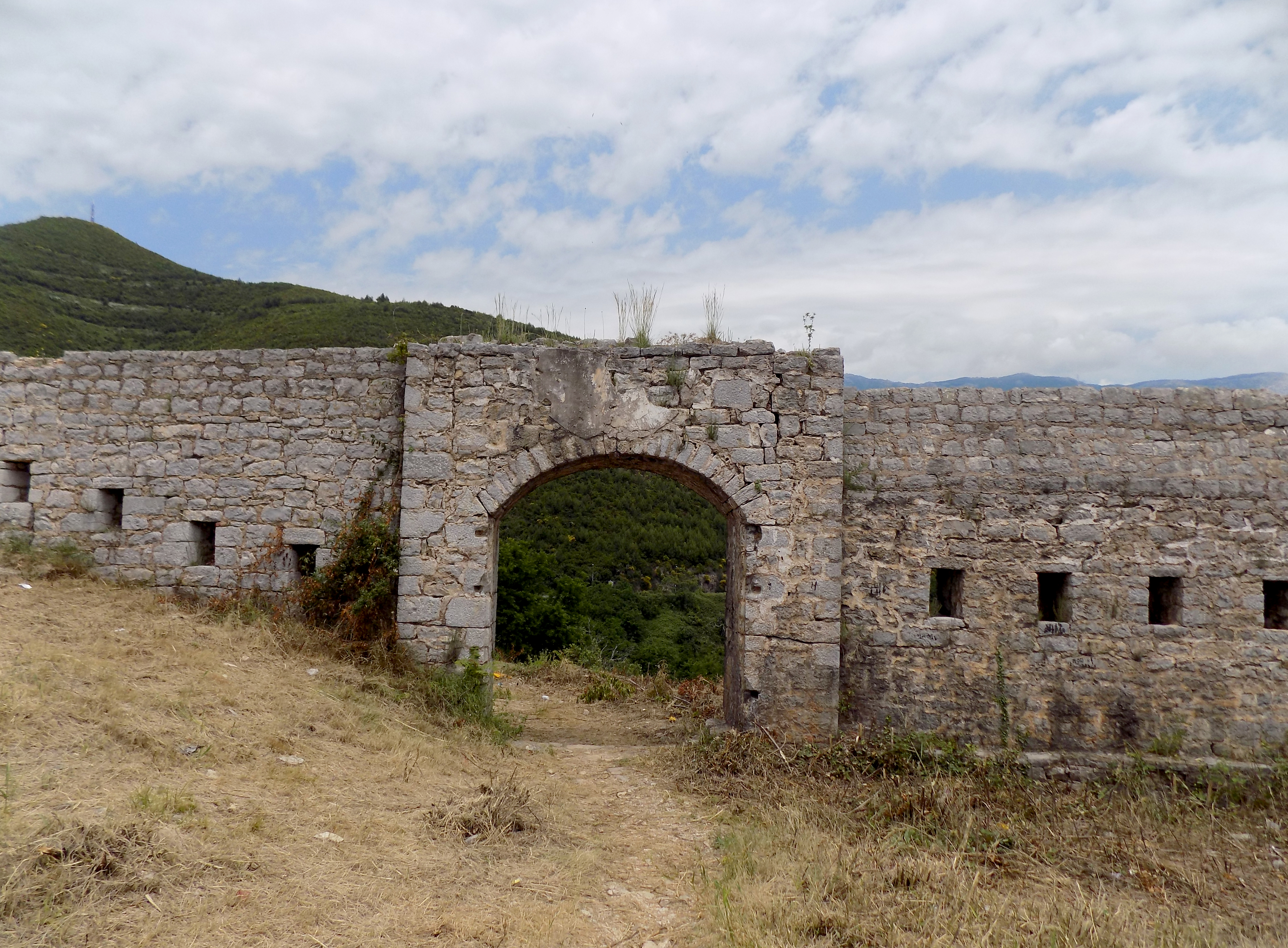 The remains of the Mogren fort on a hill above the beach of the same name, close to Budva (Montenegro)